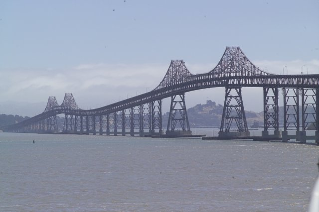 Richmond San Rafael Bridge Before Roadway Resurfacing 7-11-06, Caltrans District 4 Photography Catalog Set #7836d